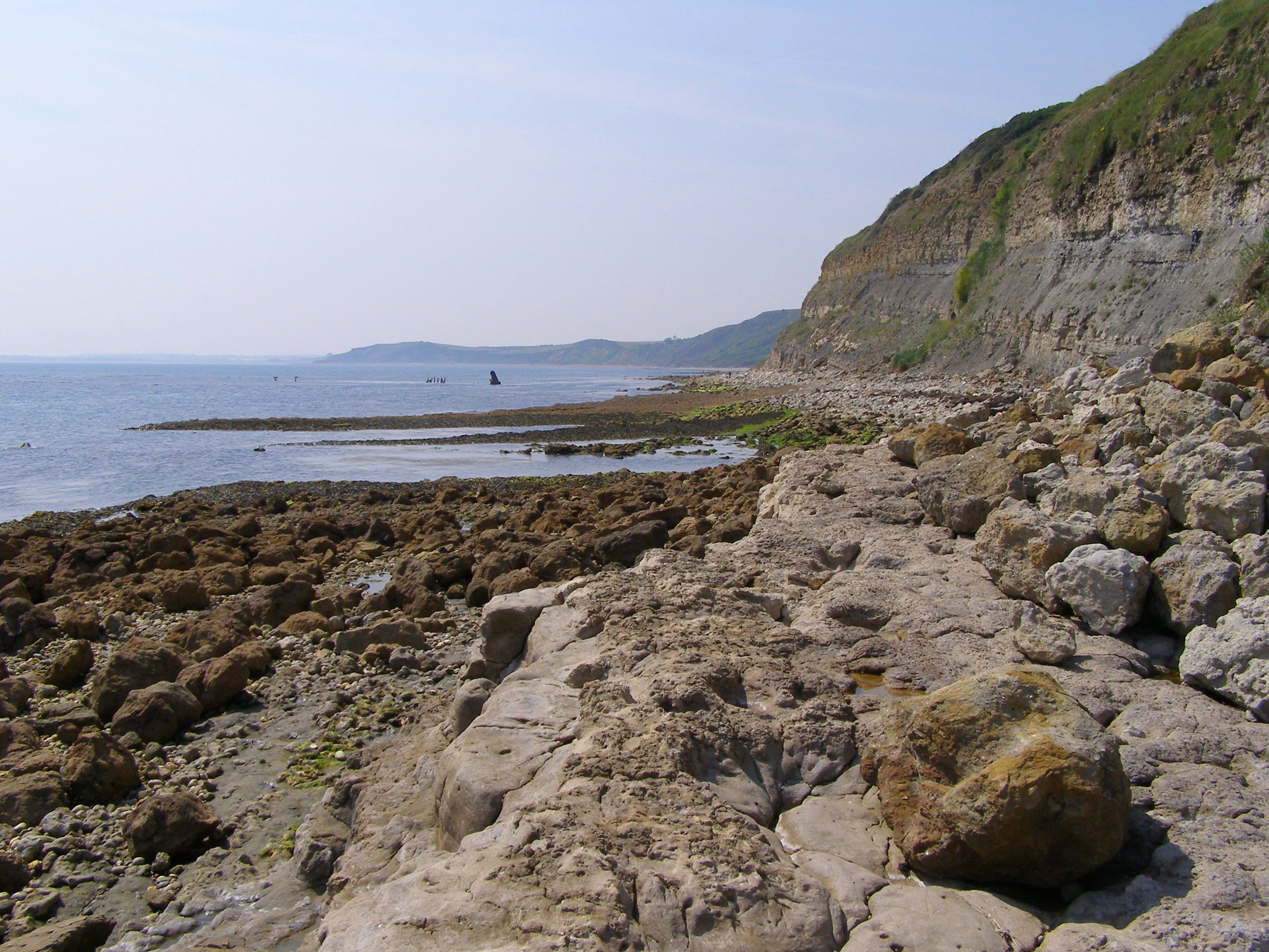 Coastline at Bran Point, looking west from Bran Ledge towards Redcliff Point